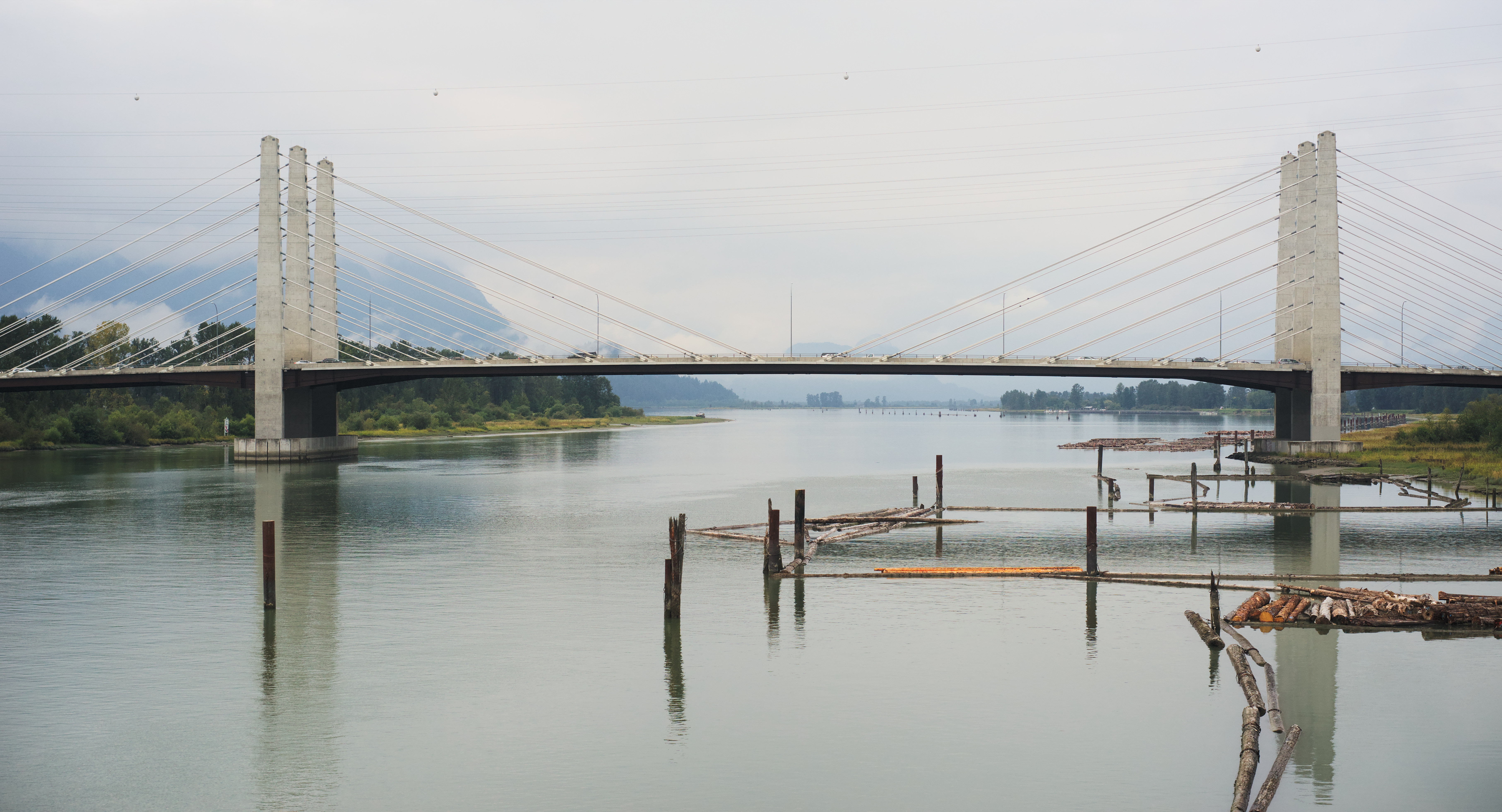 Pitt River Bridge as seen from the south.